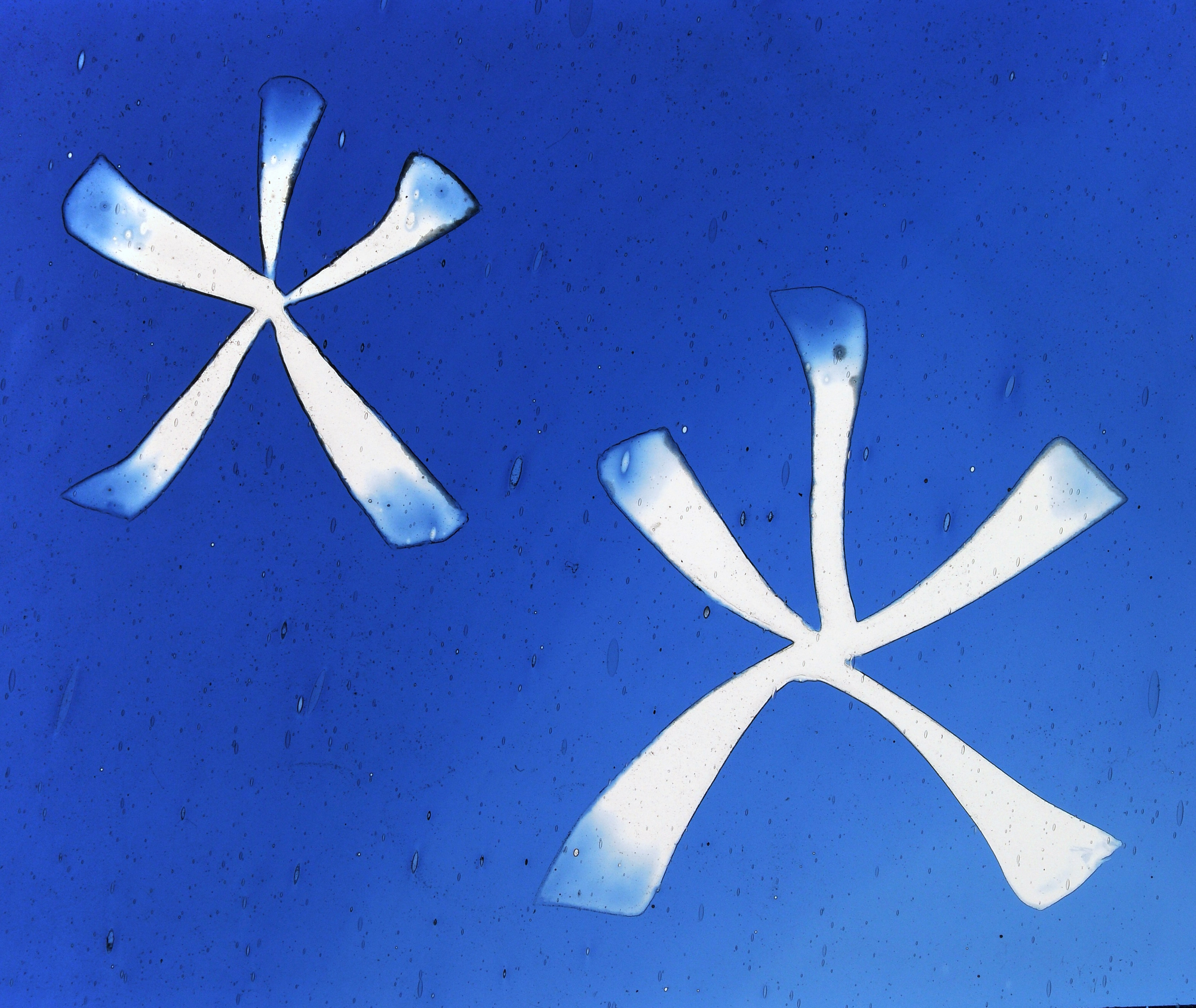 Stars etched with hydrofluoric acid from a piece of glass, showing different shades of brightness